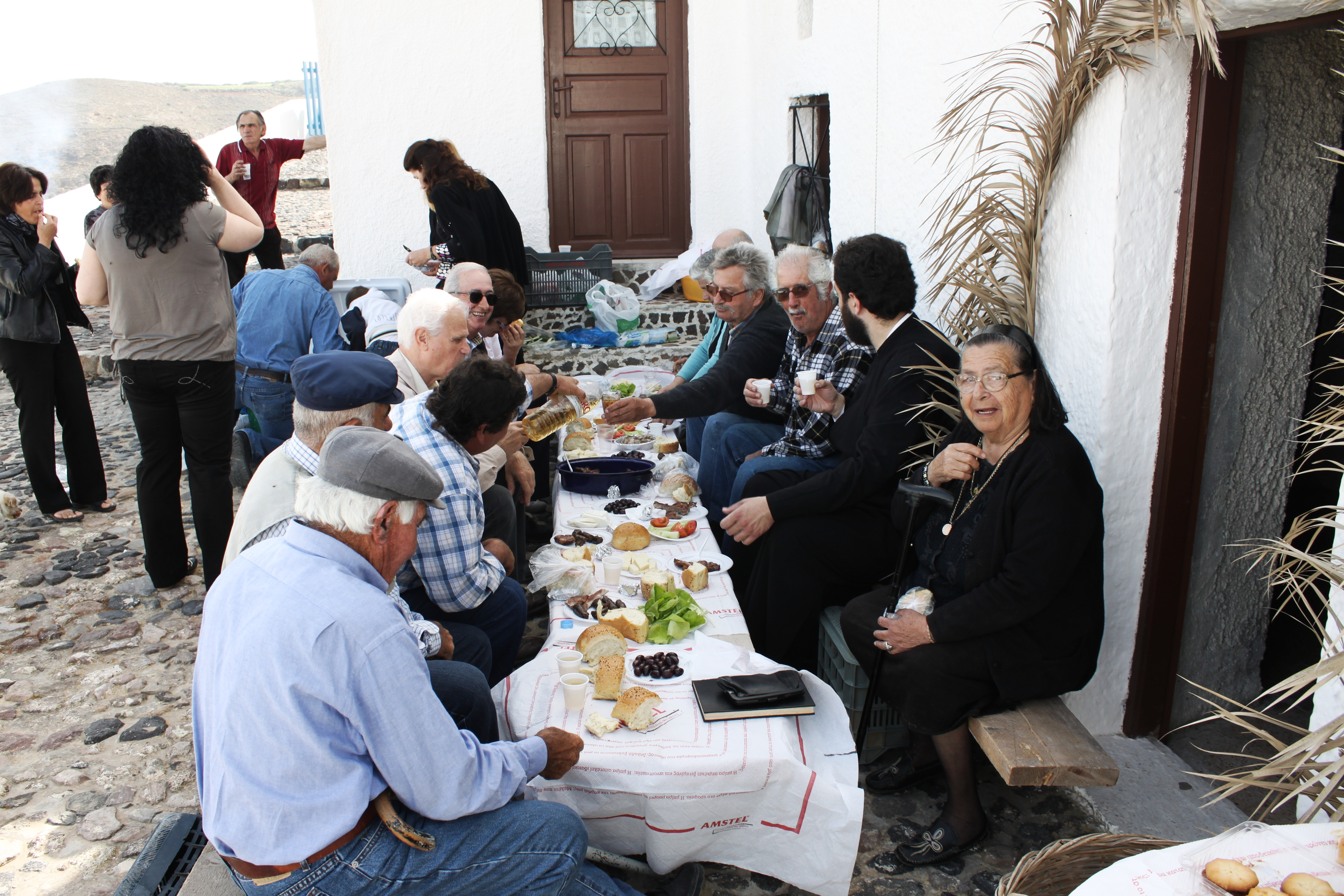 People from village Akrotiri eating at the yard of church "Taxiarchis" at Akrotiri of Santorini... At Taxiarchis church